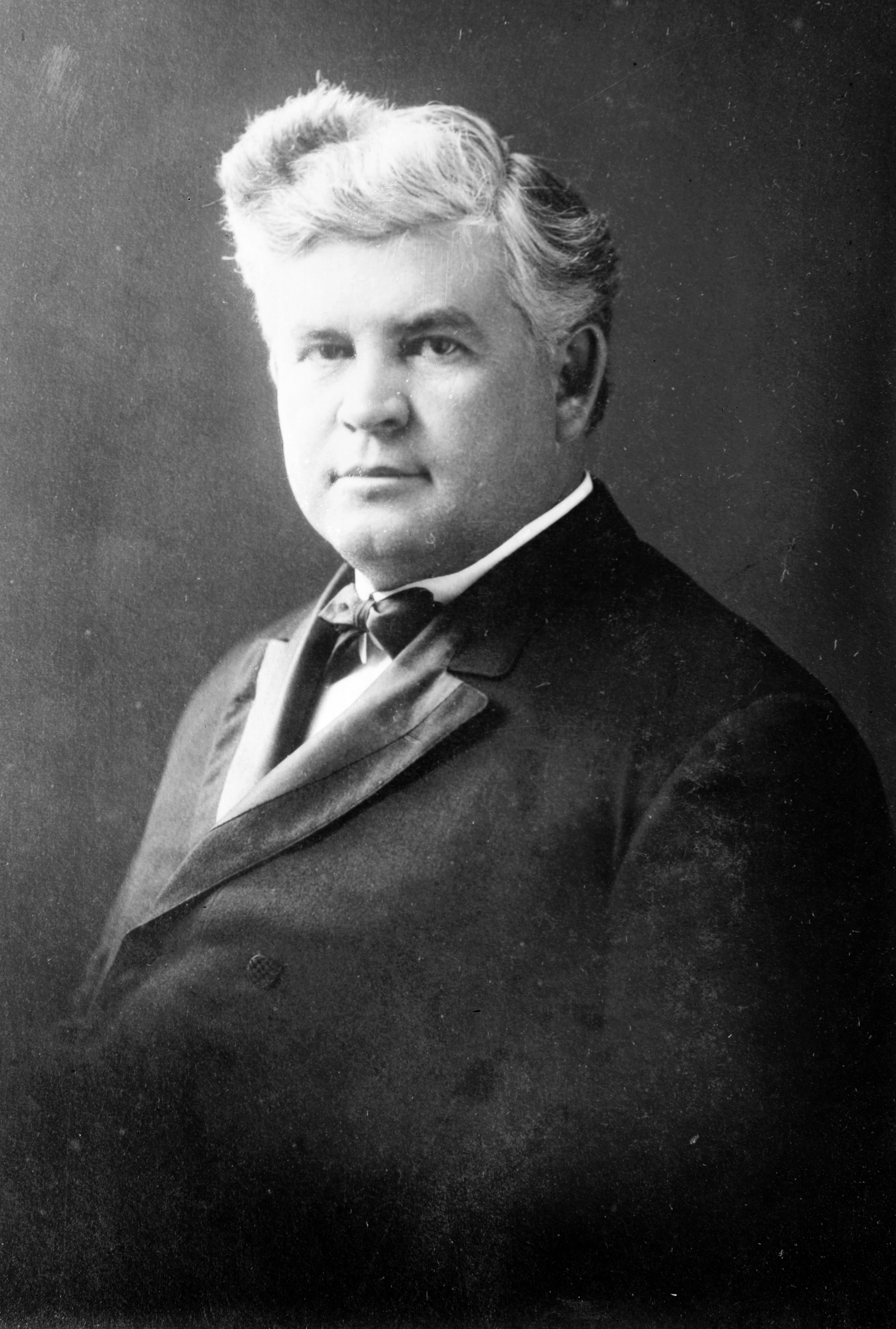 Henry Thomas Rainey (1860 – 1934), U.S. politician, Speaker of the U.S. House of Representatives